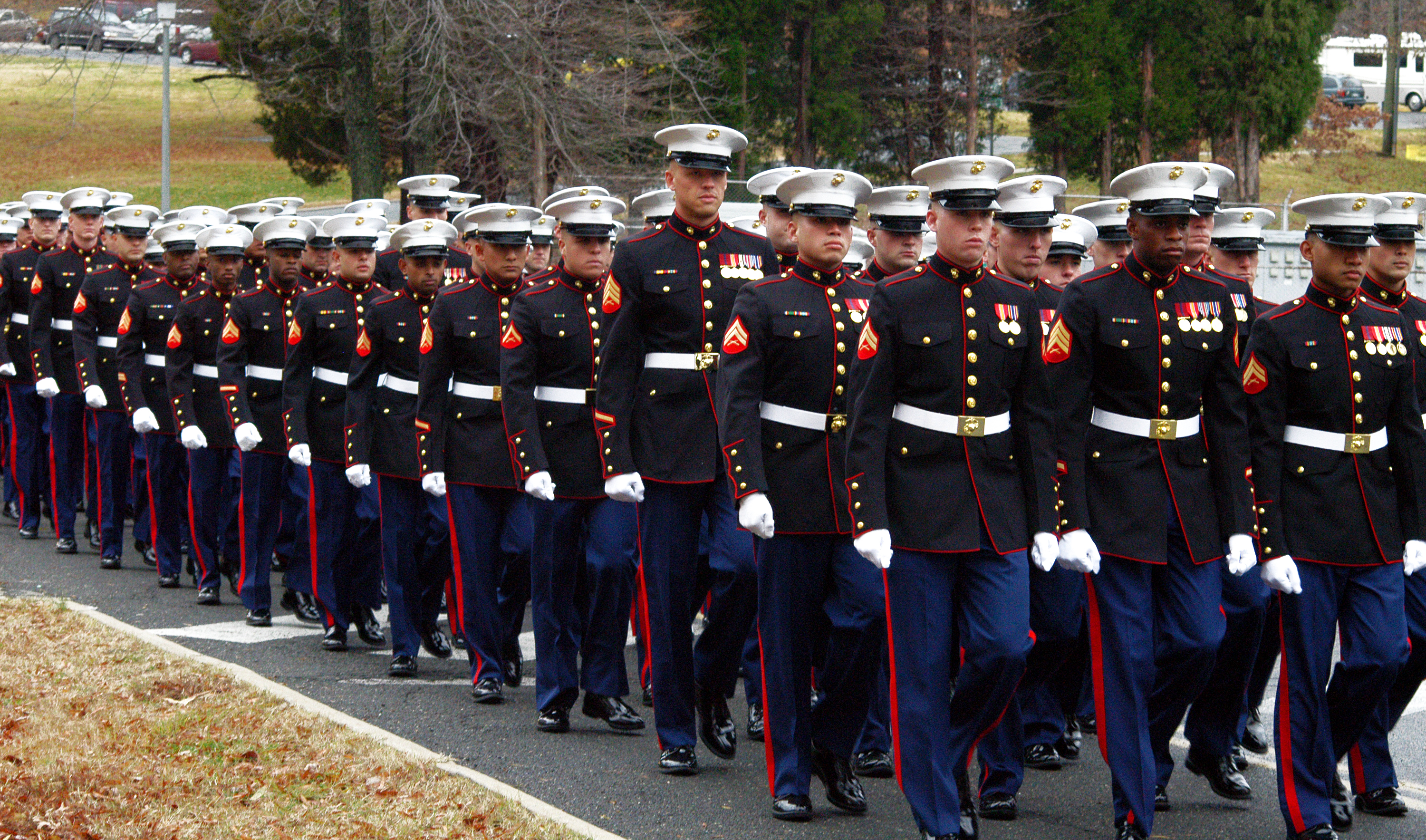 The Corps’ newest Marine Security Guards march to their graduation ceremony at Little Hall aboard MCB Quantico on Friday, December 11. These Marines have successfully met the demands of the MSG school program.